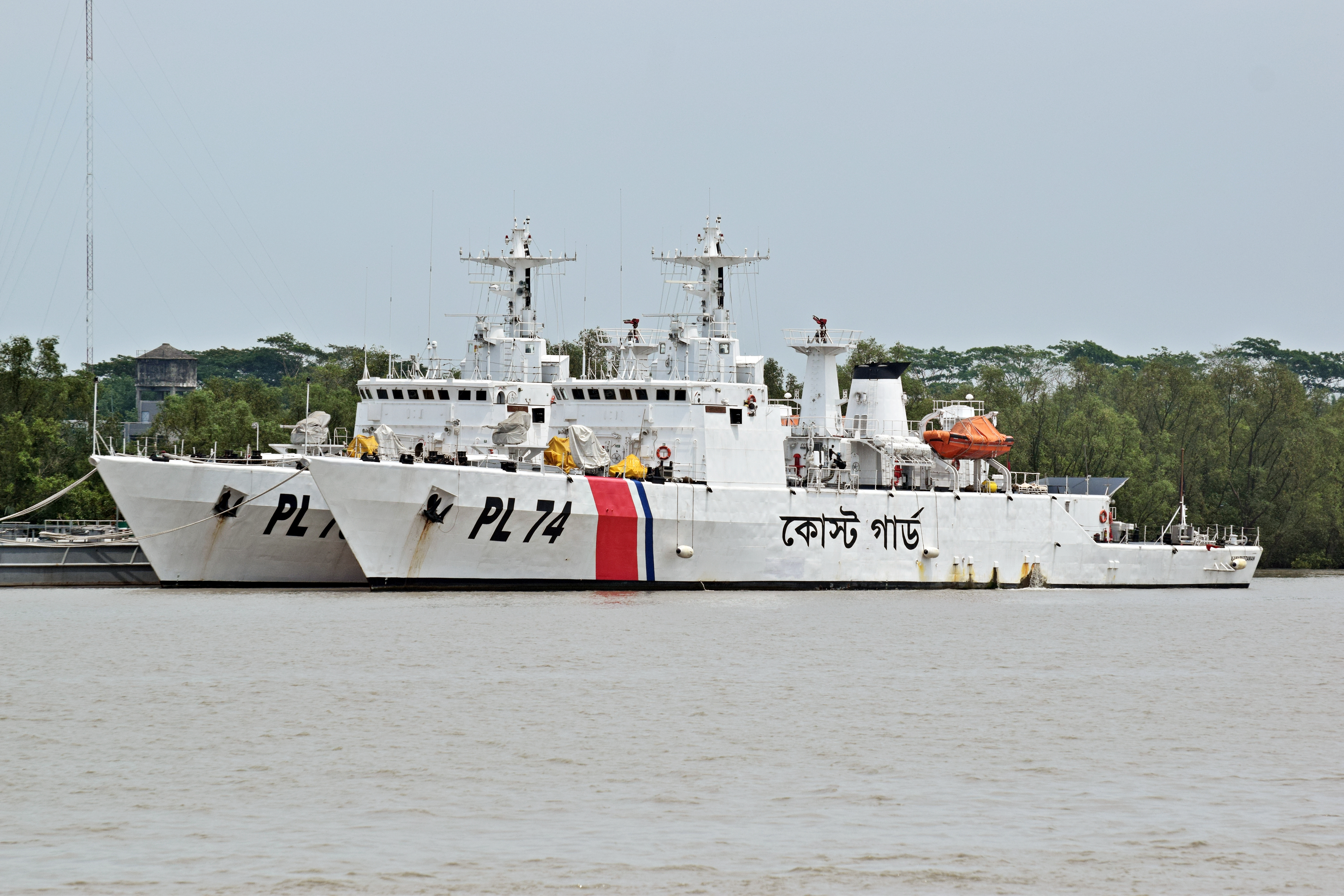 Mongla port of Bangladesh